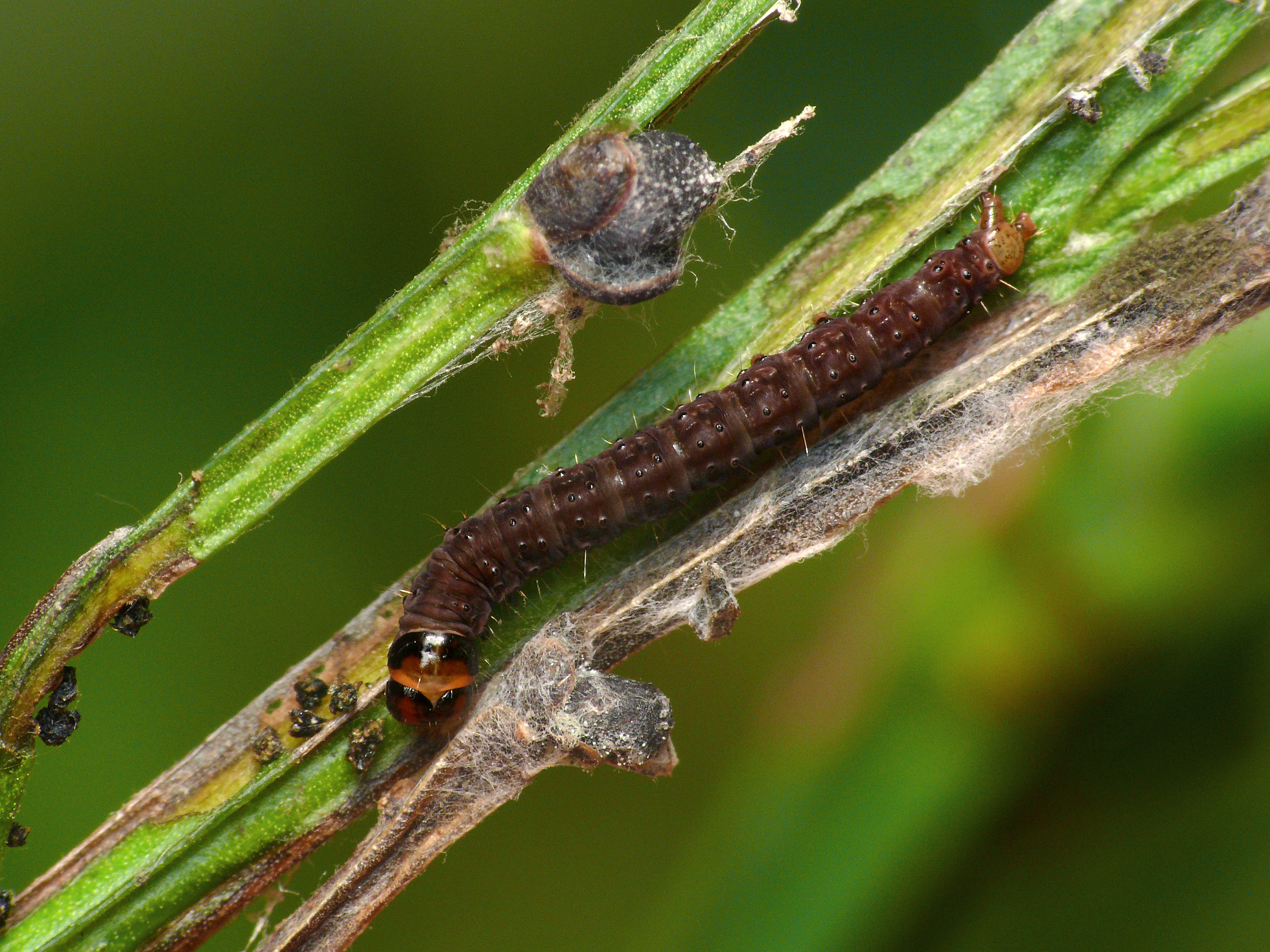 This larva was collected on the 23rd April at Malvern and ought to be a pupa by now but is still feeding well. A local search today produced many vacated spinnings on Cytisus but no larvae.